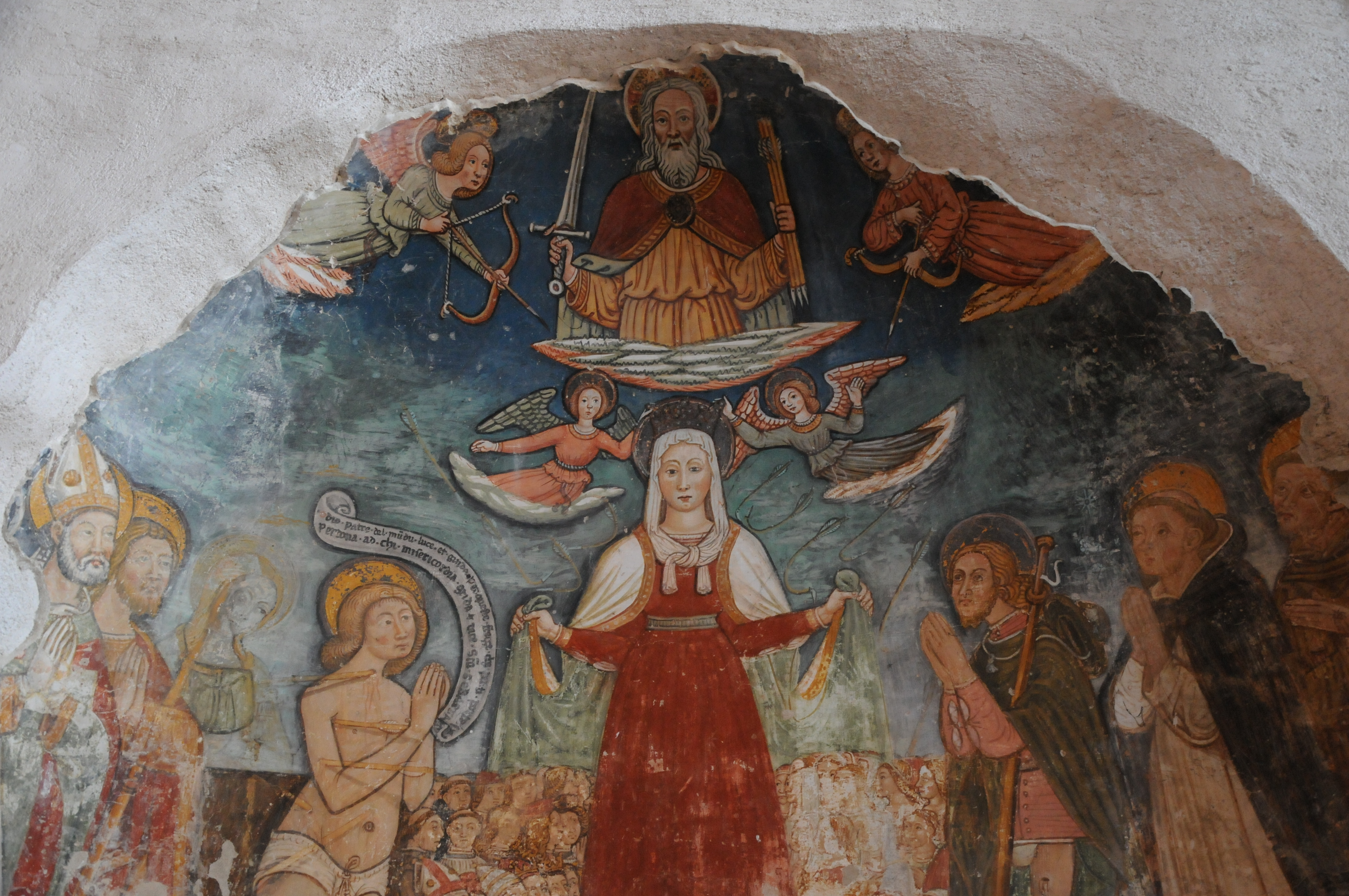 Church of San Domenico - Rieti (Lazio, Italy)